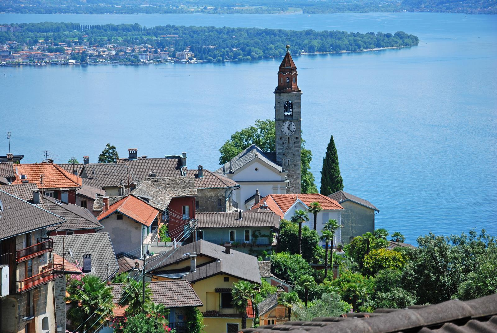 The church and village of Ronco sopra Ascona, Ticino, Switzerland